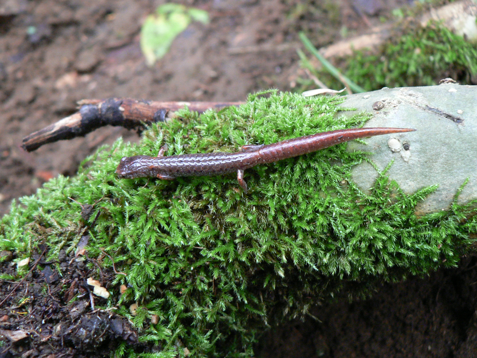 Dorsal view of a four-toed salamander (Hemidactylium scutatum).